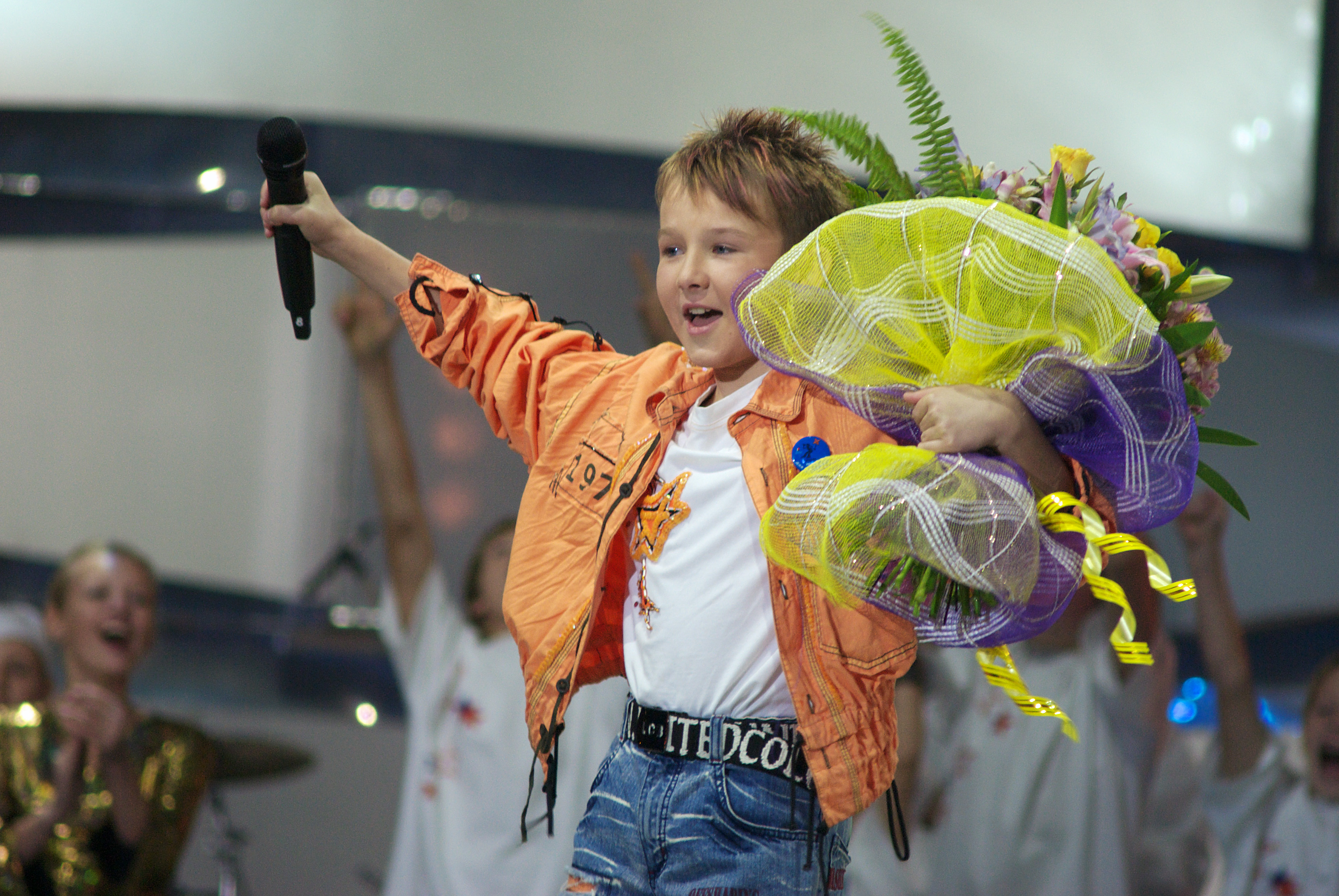 Alexey Zhigalkovich